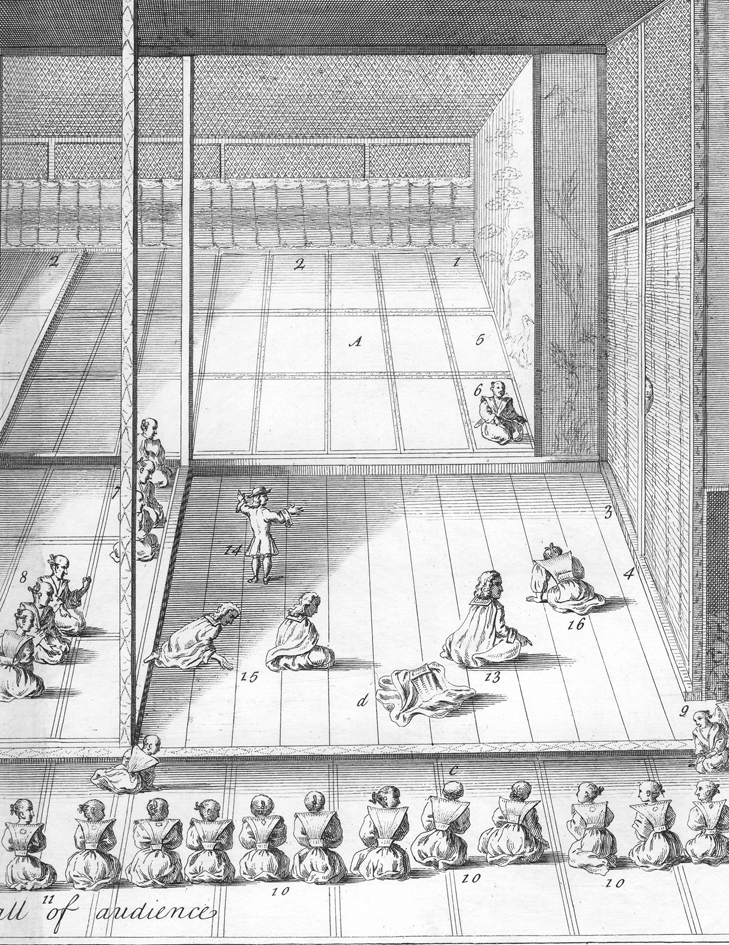 Audience of Cornelisz van Outhoorn (no 13), chief of the Dutch factory Dejima (Nagasaki), at the castle in Edo in 1692. At the request of shogun Tsunayoshi, Outhoorn's factory physician Engelbert Kaempfer (no 14) is showing a European dance.